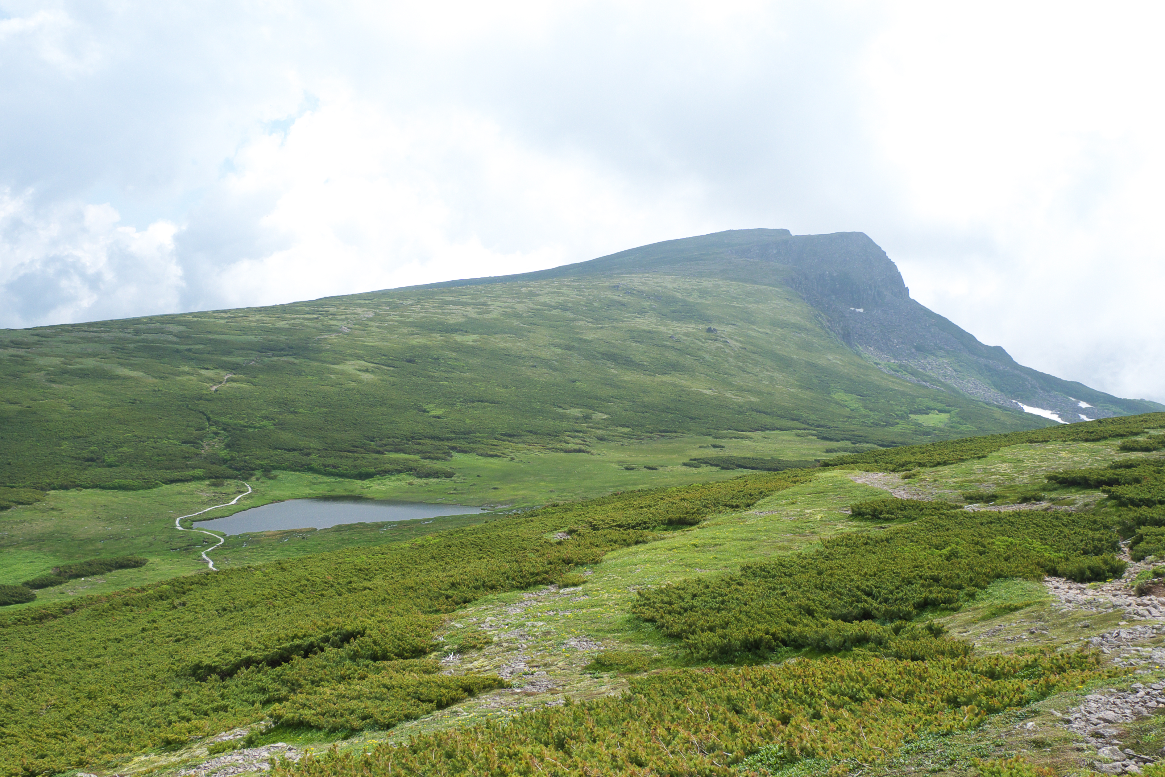 Mount Chubetsu (Chubetsu-dake) and Chubetsu Pond (Chubetsu-numa) seen from the Daisetsu Mountains traverse trail in Hokkaido, Japan